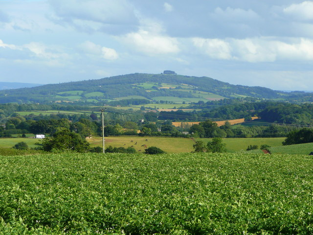 Fine view of May Hill Looking south-south-east from Perrystone Hill.